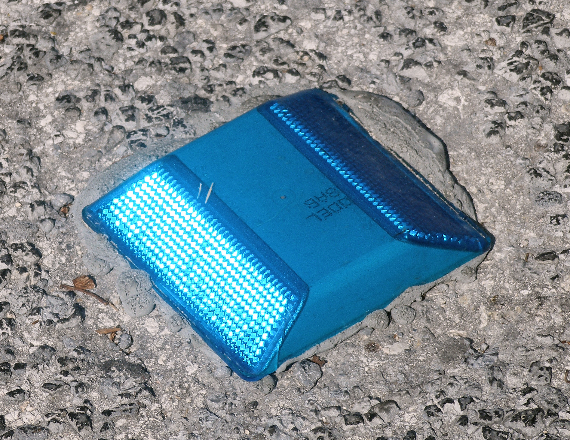 A blue raised pavement marker seen at the Flamingo site in Everglades National Park, Florida. Photographed by user Coolcaesar on January 18, 2008.